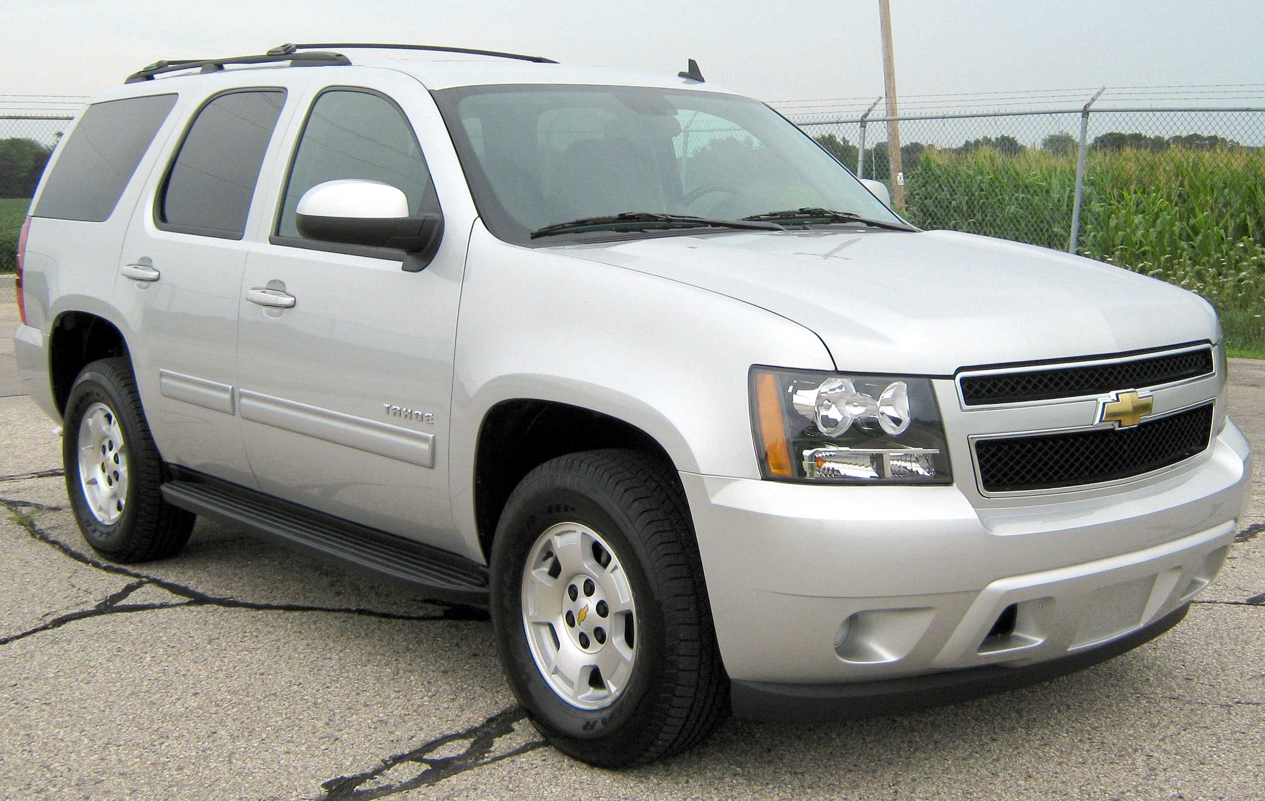 2011 Chevrolet Tahoe photographed in USA.